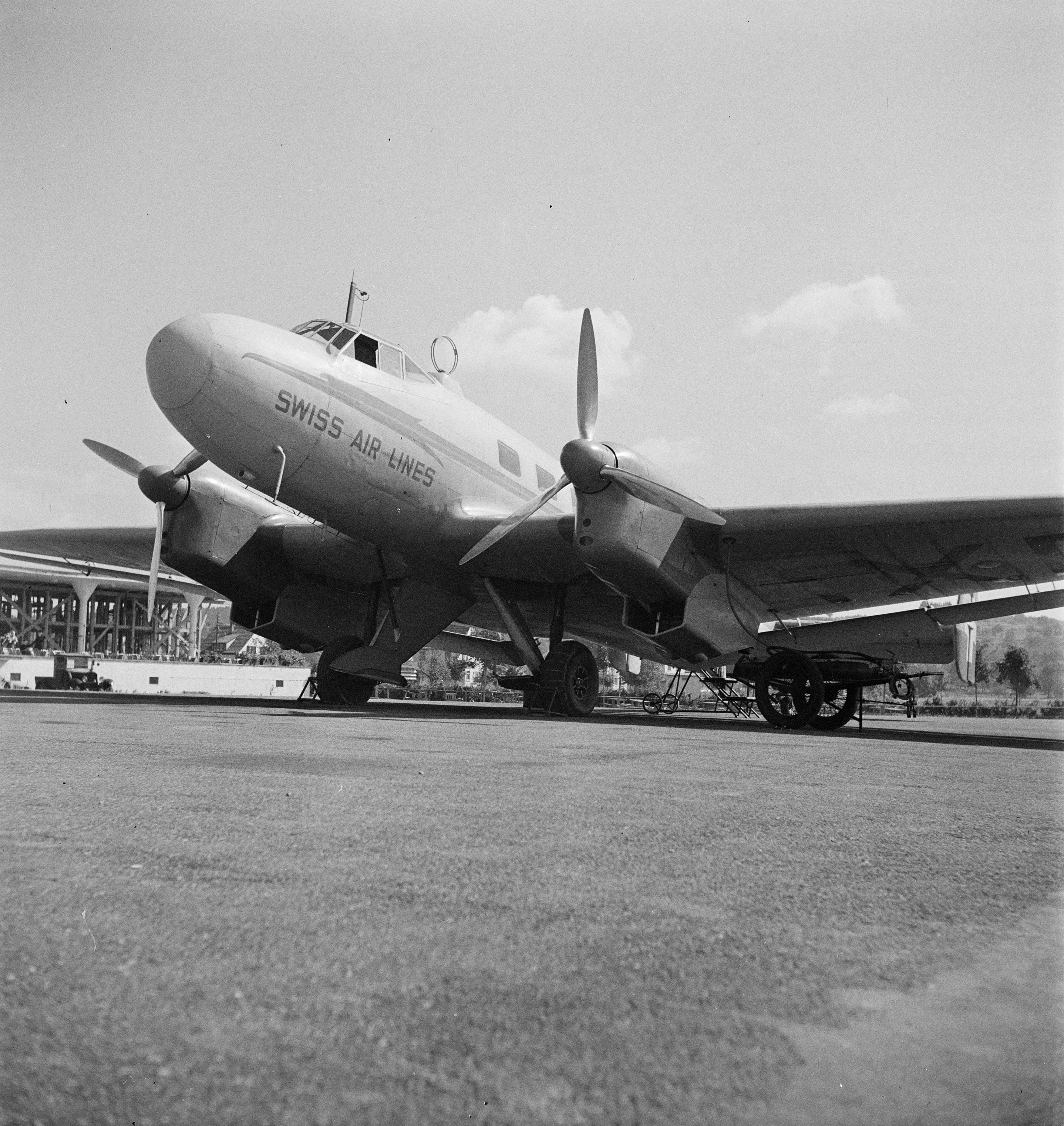 Zeitgenössische Bildbeschreibung des Swissair-Marketings: "Junkers Ju 86, Bodenaufnahme"